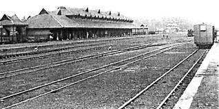 Old photograph of Kollam railway station